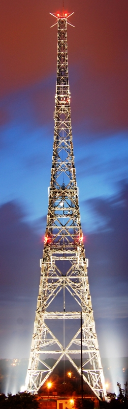 The tower of the Gliwice Radio Station